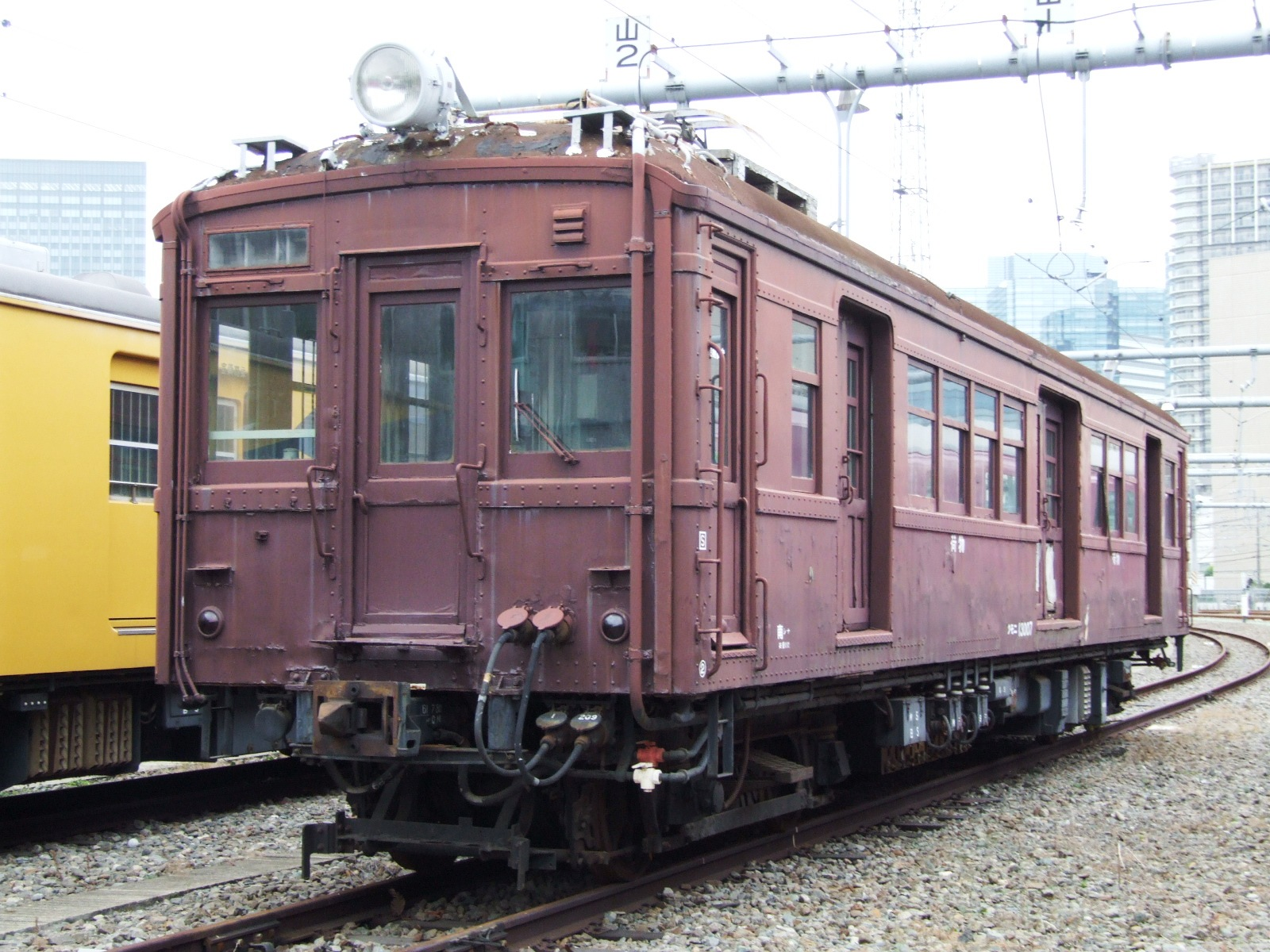 KUMONI 13,Japanese National Railway,Japan